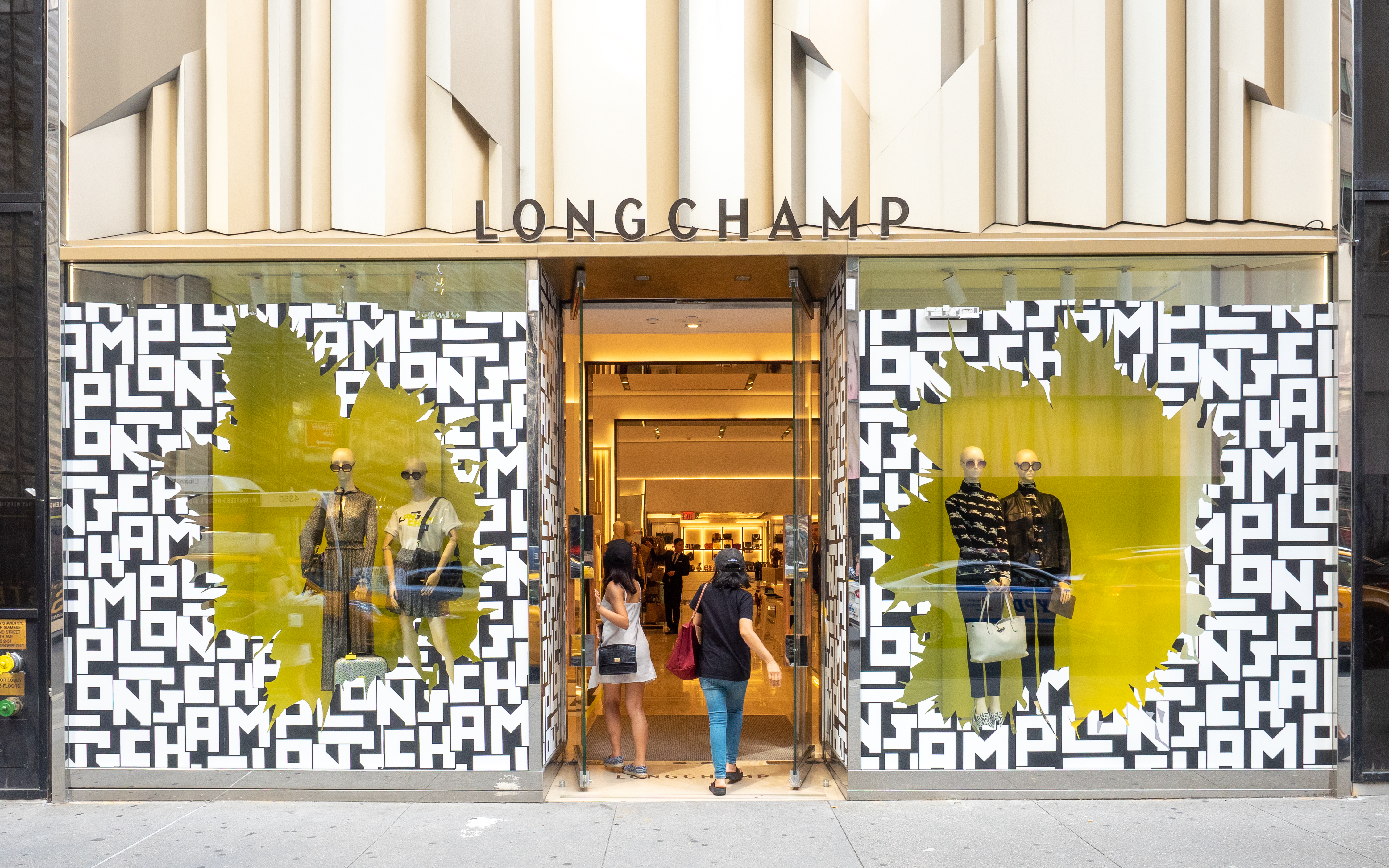 Midtown Manhattan, NYC